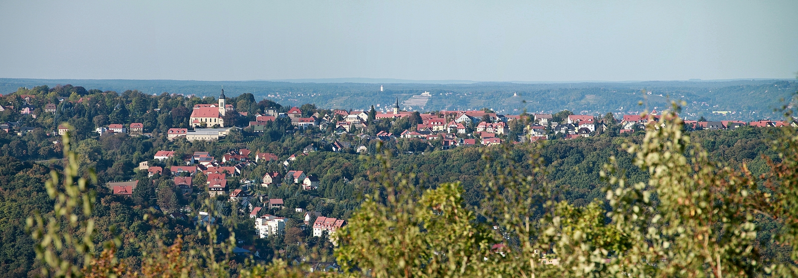 This image shows the village of Pesterwitz near Freital seen from the Windberg (353 metres).